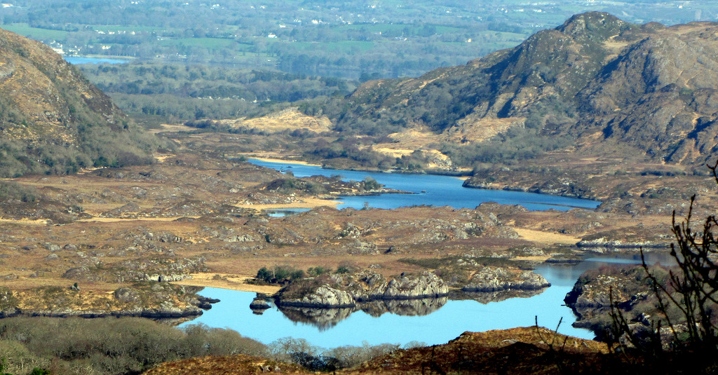 Lakes in Killarney National Park